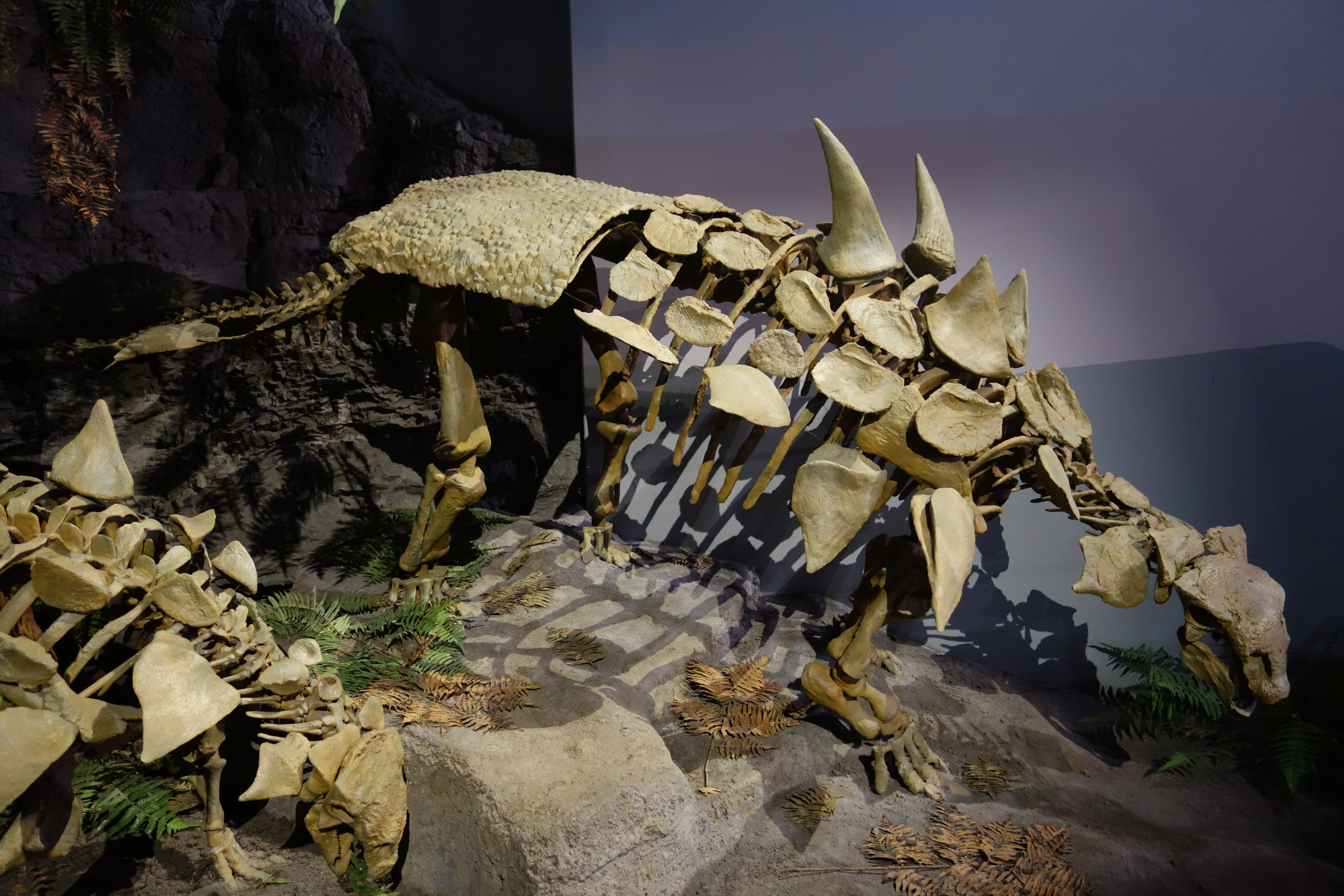 Gastonia mounted casts, on display at the Museum of Ancient Life, Utah.